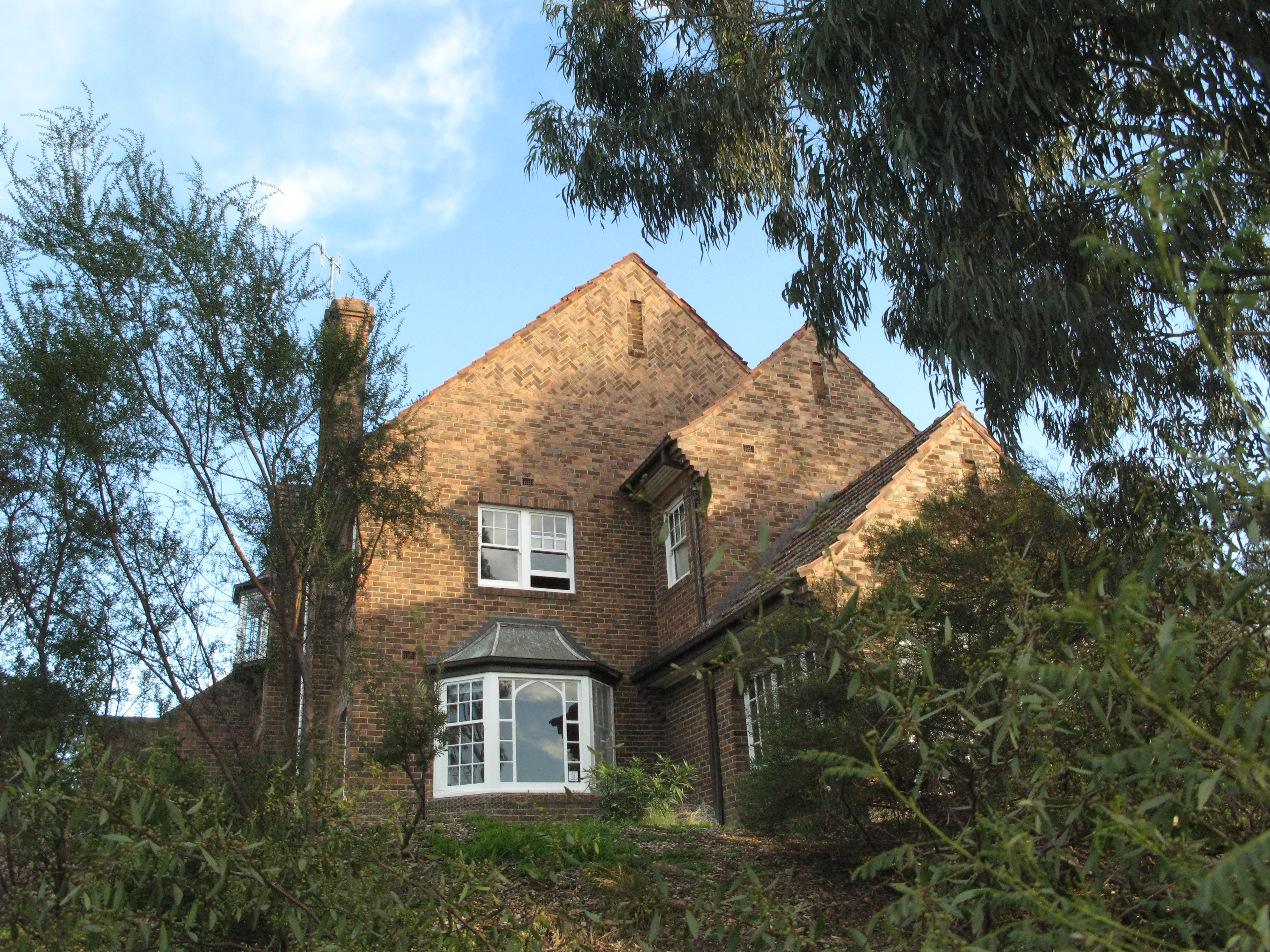 The northern end of the Manor House in Westerfolds Park, Melbourne, Australia. Photo taken by Nick carson in July 2009.